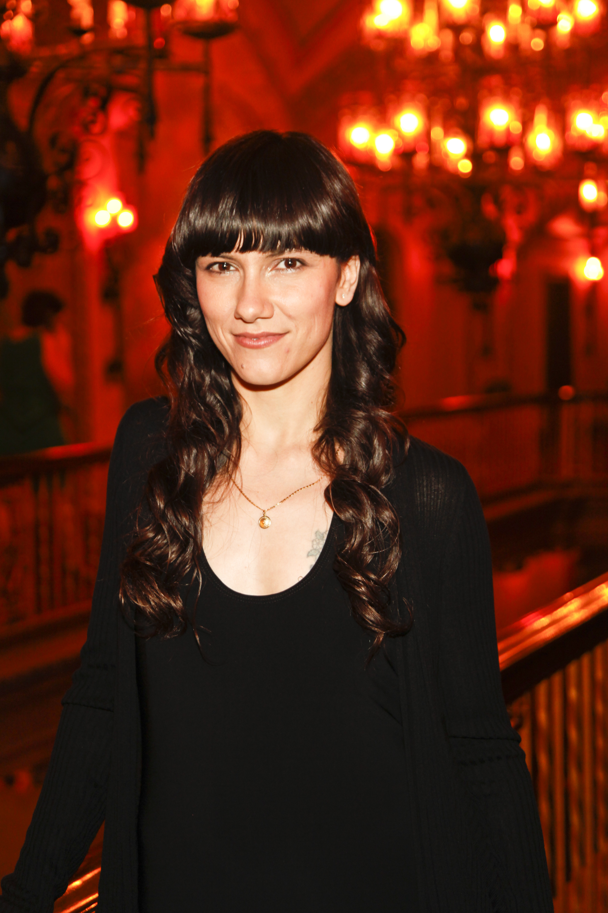 Italian singer/songwriter Elisa at the 2012 Miami International Film Festival presentation of SOMEDAY THIS PAIN WILL BE USEFUL TO YOU (Un giorno questo dolore ti sarà utile) red carpet at Olympia Theater at the Gusman Center for the Performing Arts